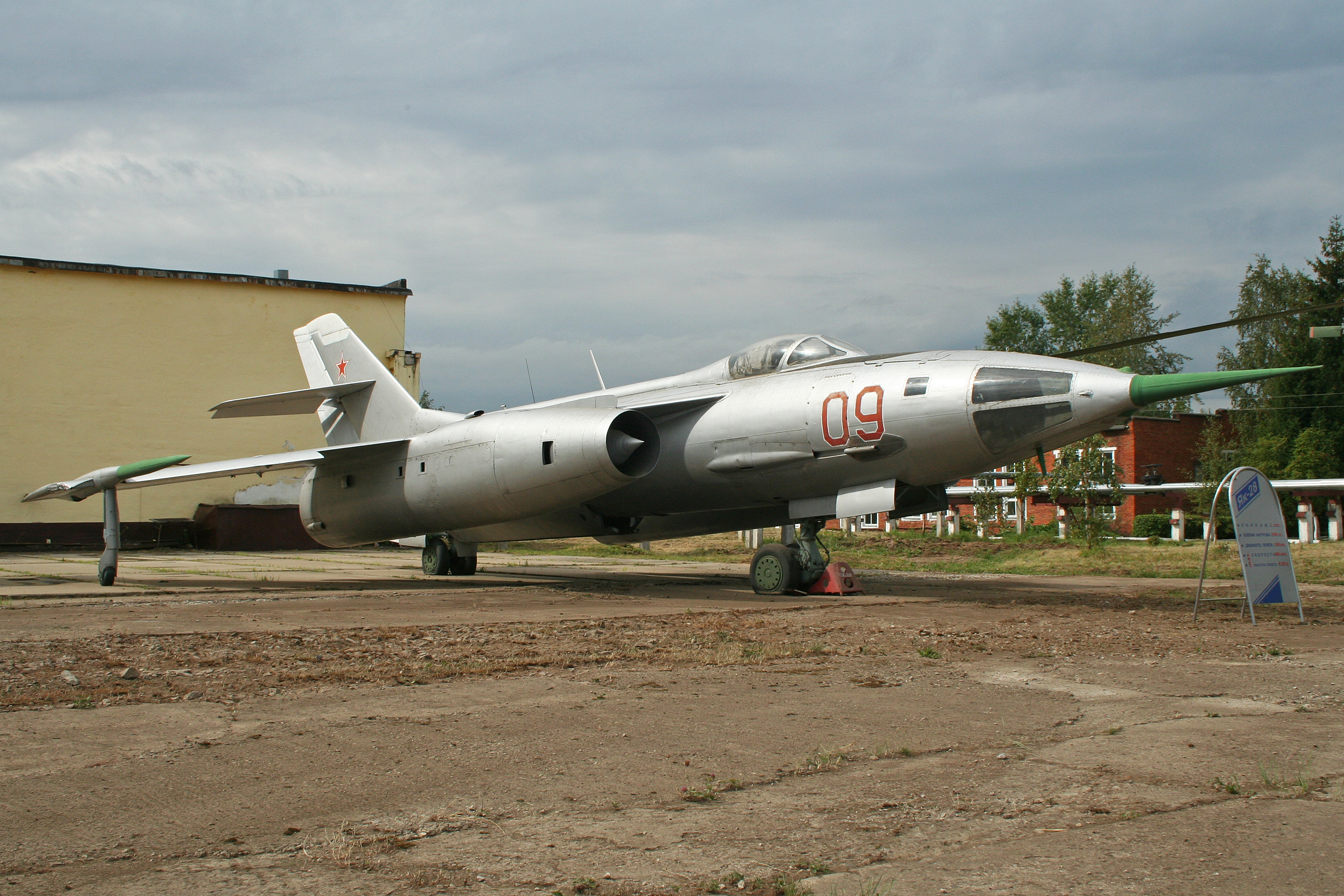 The 'L' was a tactical bomber variant of this impressive aircraft type. On display outside the 121st Aircraft Repair Plant at Kubinka, Russia. 11-8-2012